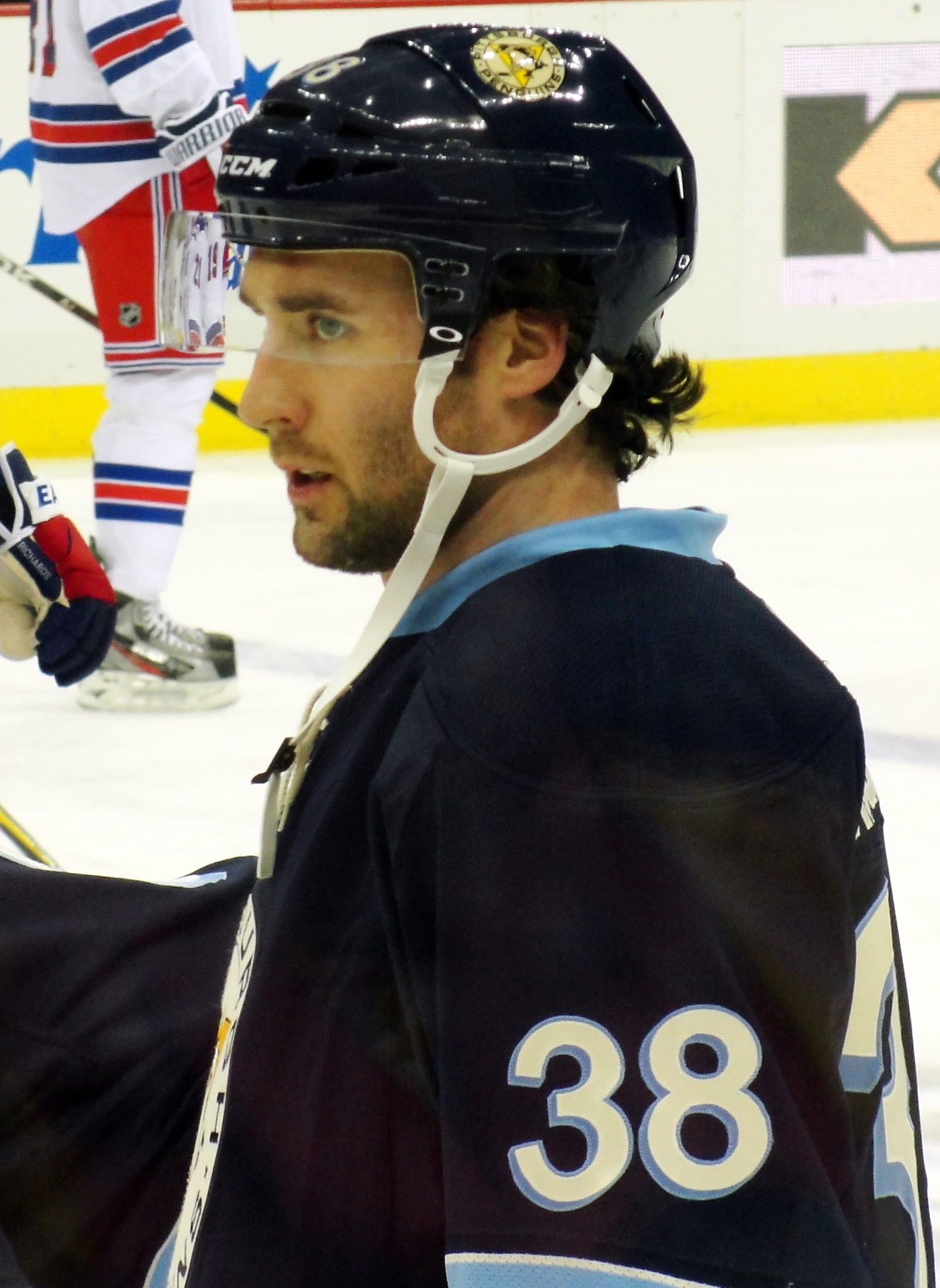 Pittsburgh Penguins forward warms up before a January 6, 2012 game against the New York Rangers at Consol Energy Center in Pittsburgh, PA.